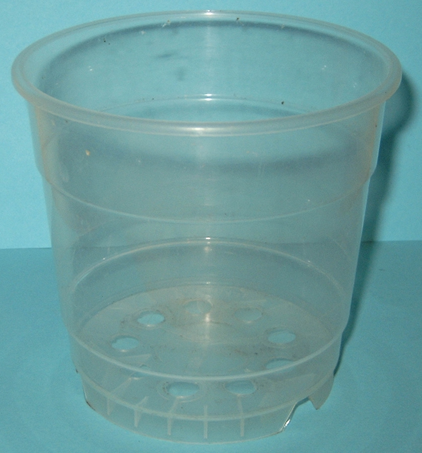 flower pot for plants with roots with included chlorophyll, also known as "orchid pot", made of polypropylene